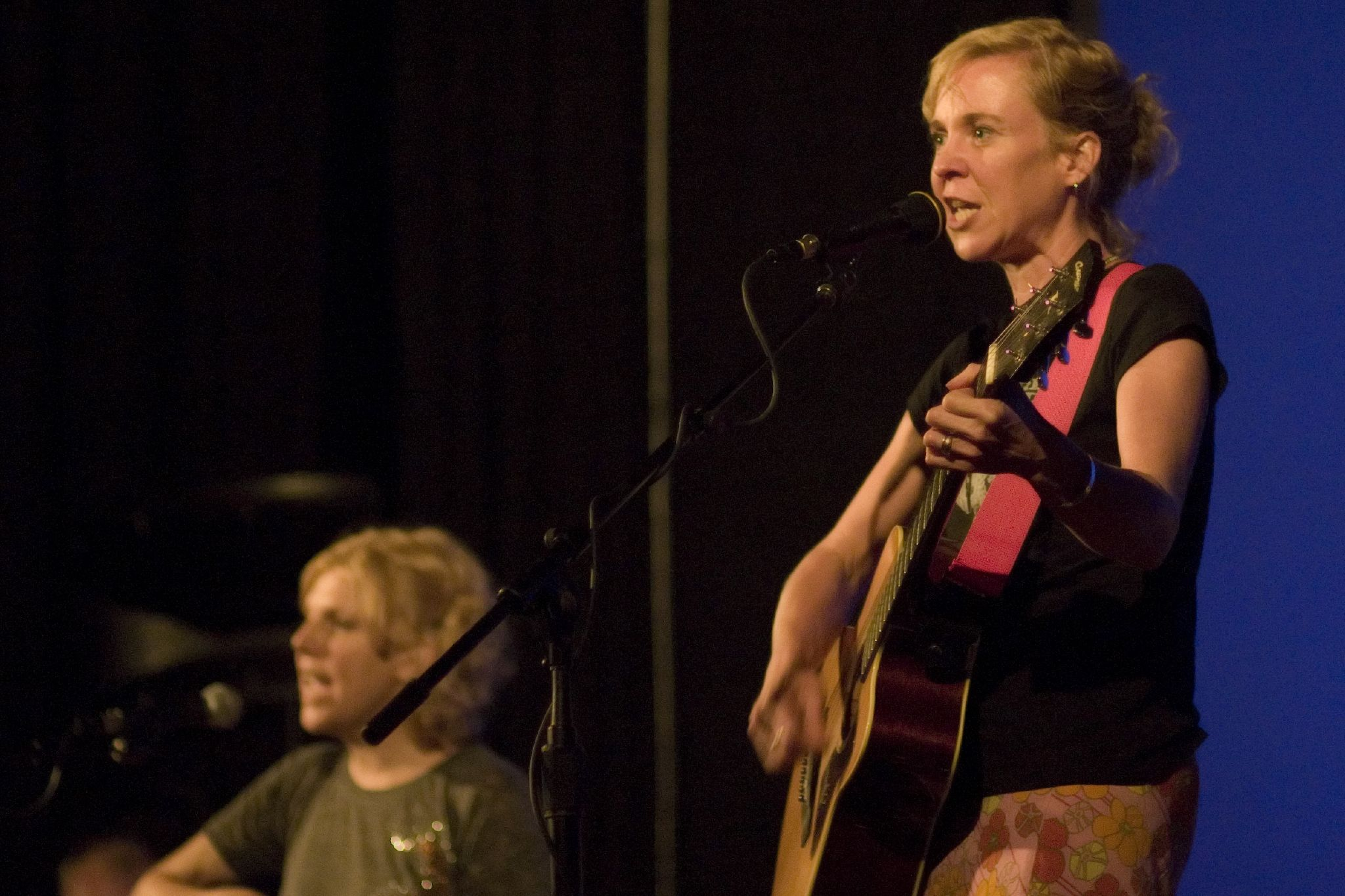 Tanya Donelly and Kristin Hersh at the Brattle Theater, Harvard Square, Cambridge, MA, 2007-10-06.